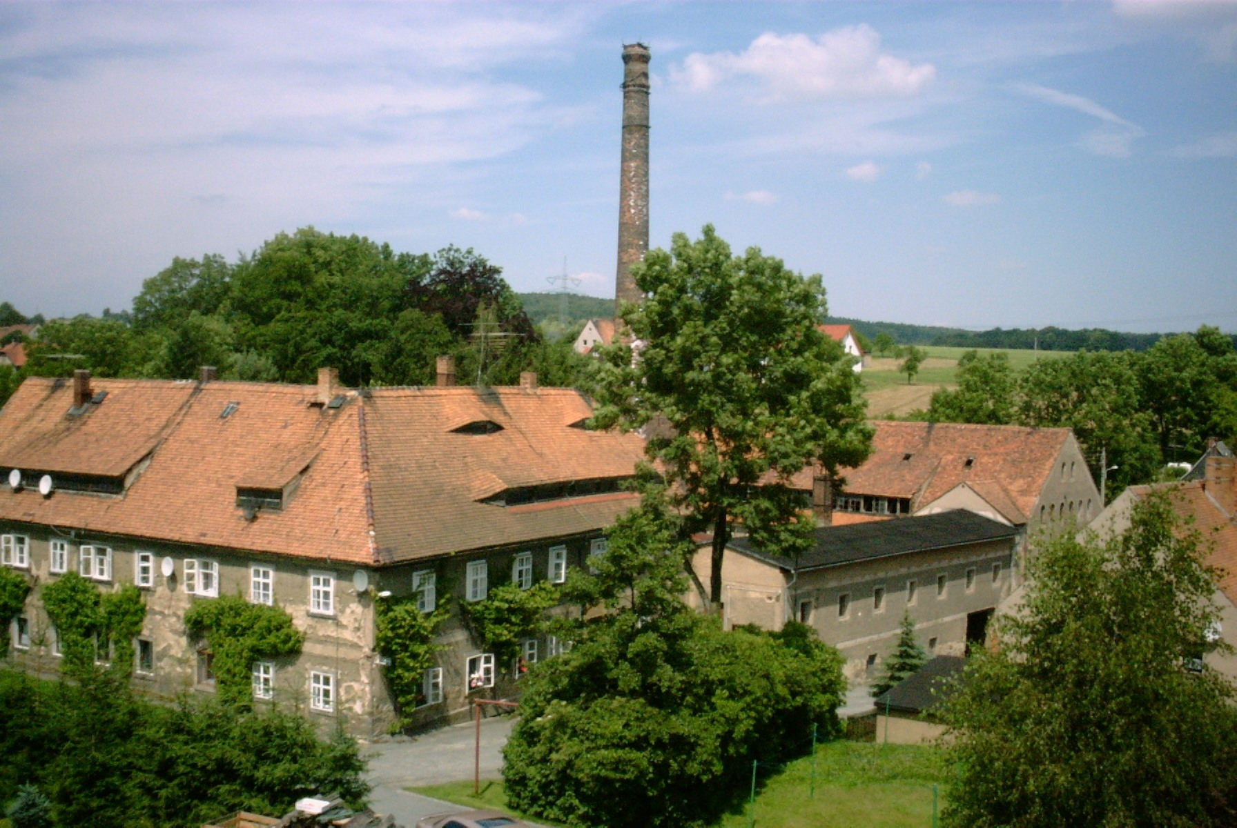 Pauls Fabrik zu Berthelsdorf